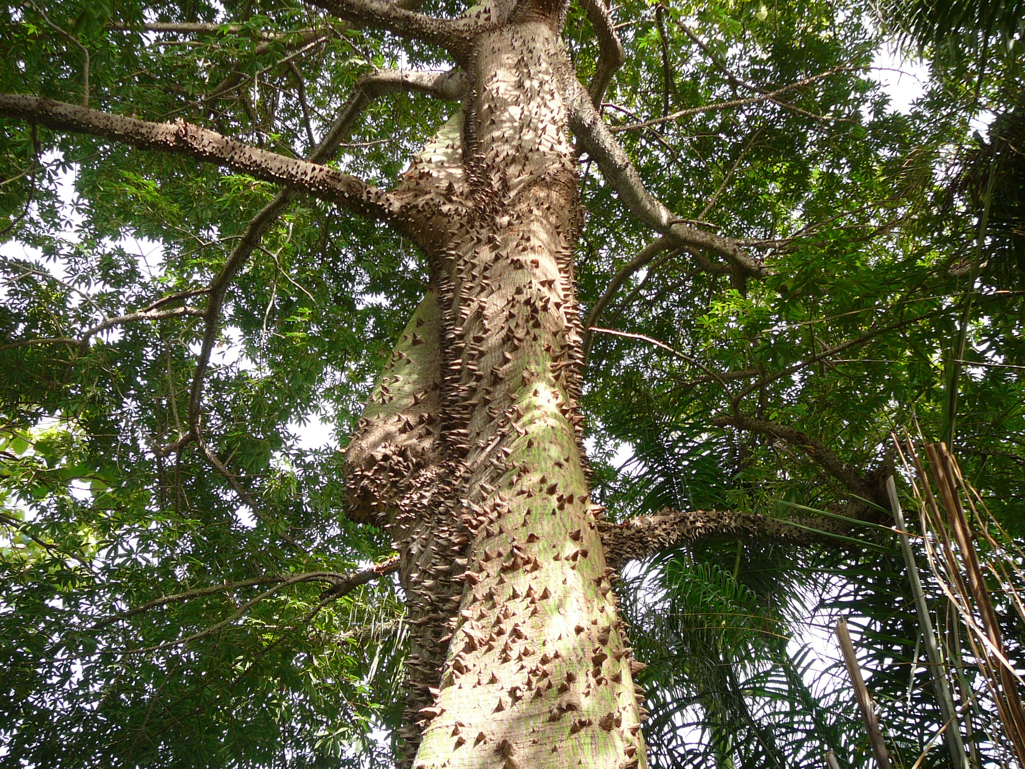 White-flowered silk cotton tree